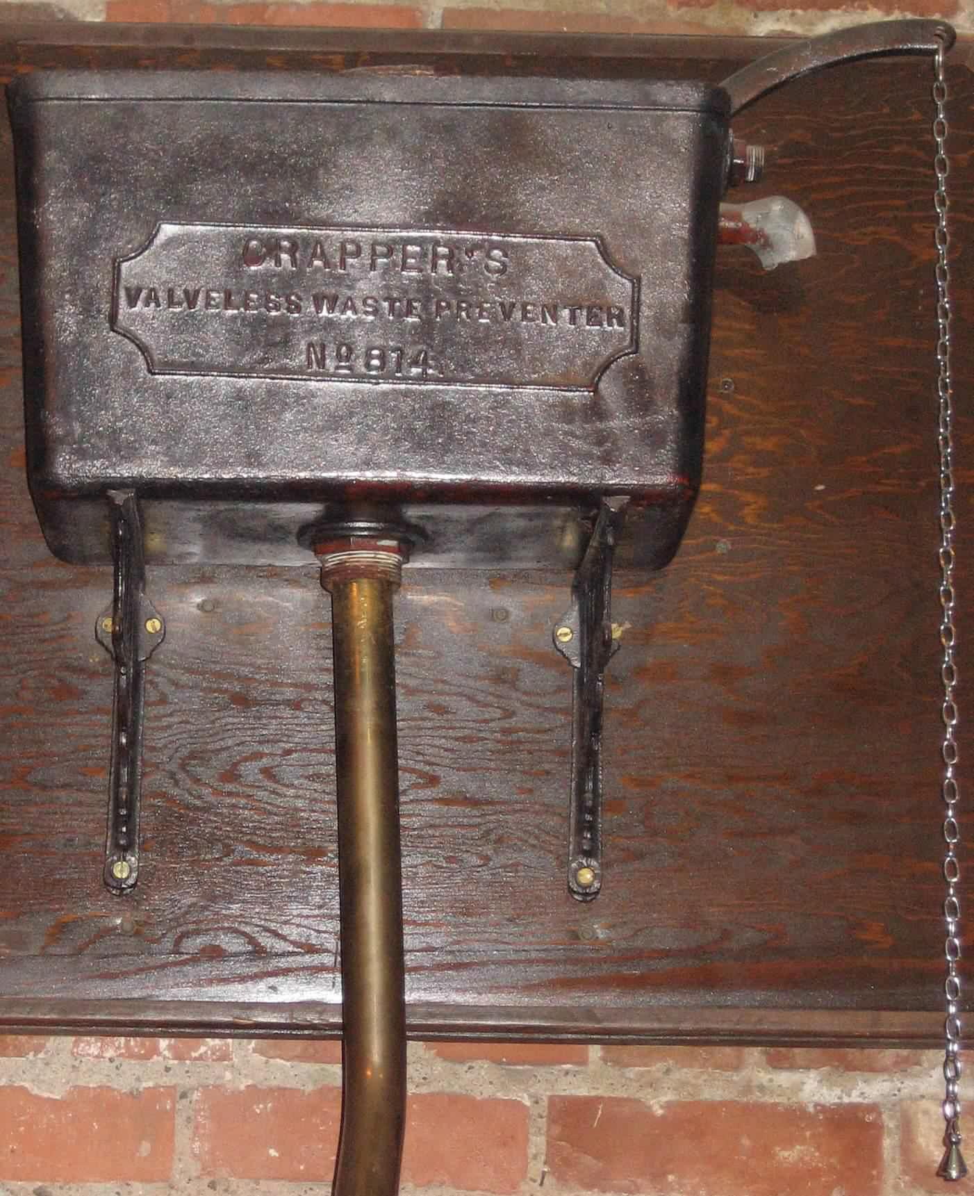 "Crapper's Valveless Waste Preventer №814", patented by Thomas Crapper. Image by Fawcett5, 24 August, 2005.